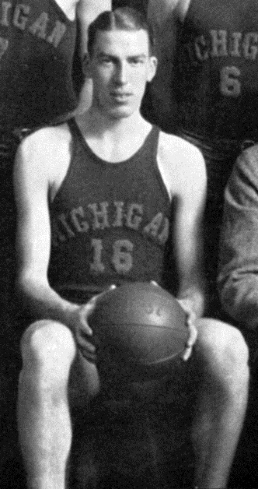 Photograph of Johnny Gee cropped from 1937 Michigan men's basketball team portrait. This work is in the public domain because it was published in the United States between 1923 and 1963 and although there may or may not have been a copyright notice, the copyright was not renewed. Unless its author has been dead for the required period, it is copyrighted in the countries or areas that do not apply the rule of the shorter term for US works, such as Canada (50 pma), Mainland China (50 pma, not Hong Kong or Macao), Germany (70 pma), Mexico (100 pma), Switzerland (70 pma), and other countries with individual treaties. See Commons:Hirtle chart for further explanation. This work is in the public domain because it was published in the United States between 1923 and 1977 and without a copyright notice. Unless its author has been dead for several years, it is copyrighted in jurisdictions that do not apply the rule of the shorter term for US works, such as Canada (50 p.m.a.), Mainland China (50 p.m.a., not Hong Kong or Macao), Germany (70 p.m.a.), Mexico (100 p.m.a.), Switzerland (70 p.m.a.), and other countries with individual treaties. See this page for further explanation.